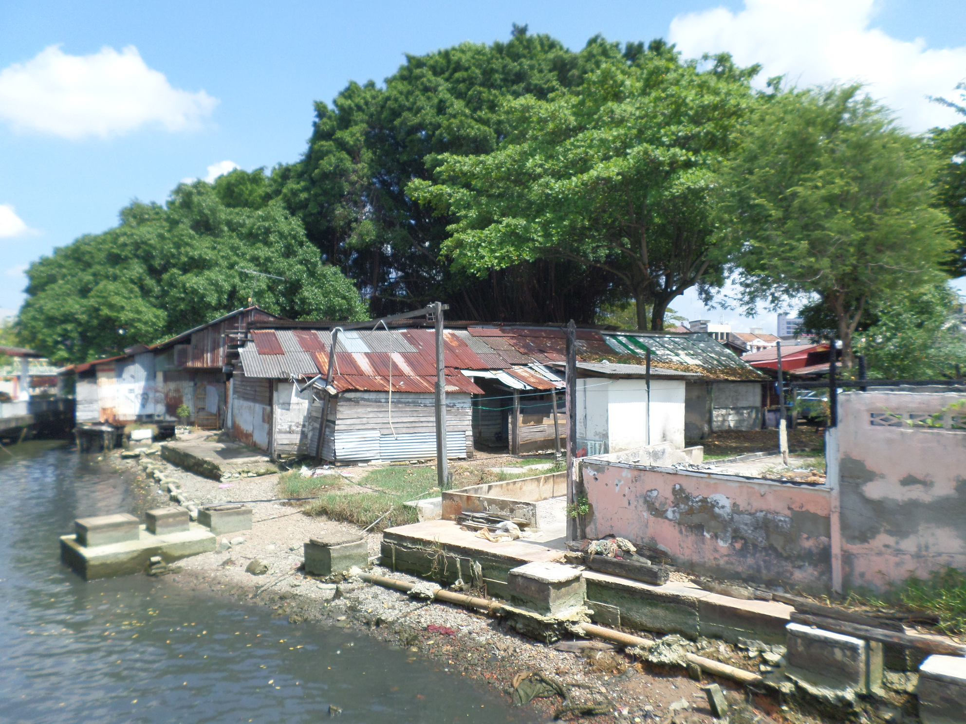 Java Village, Malacca City, Malacca, MalaysiaBahasa Melayu: Kampung Jawa, Bandarya Melaka, Melaka, Malaysia